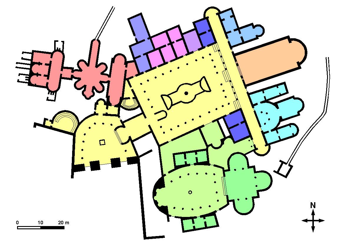 Villa Romana del Casale – Plan view of the rooms of the villa